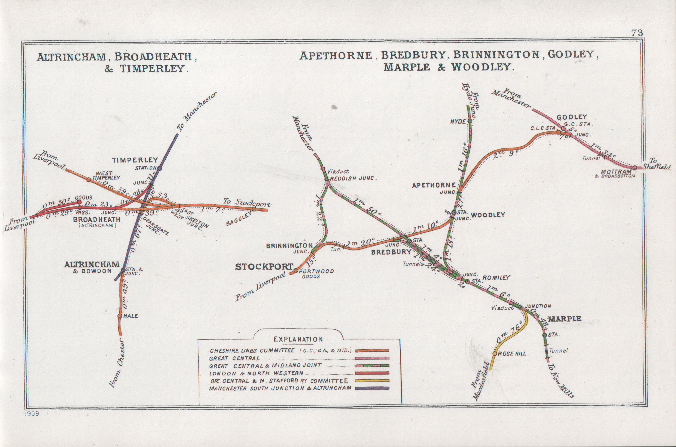 Pre Grouping railway junction around Altrincham, Broadheath & Timperley; Apethorne, Bredbury, Brinnington, Godley, Marple & Woodley